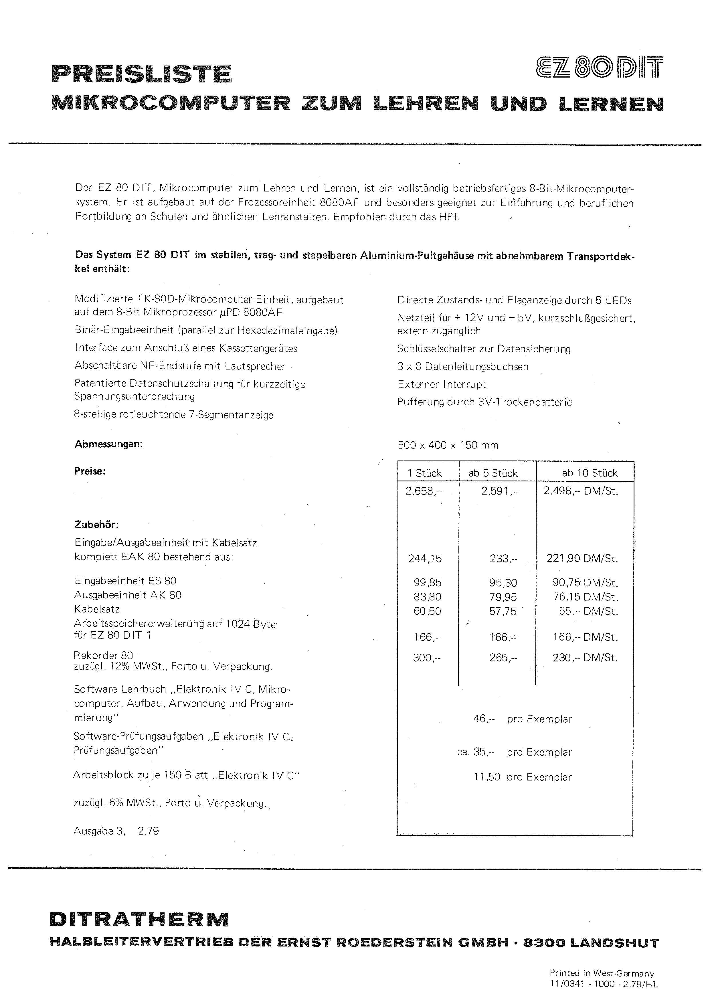 pricelist EZ80-DIT february 1979 of the vendor Ditratherm, Landshut (Germany)